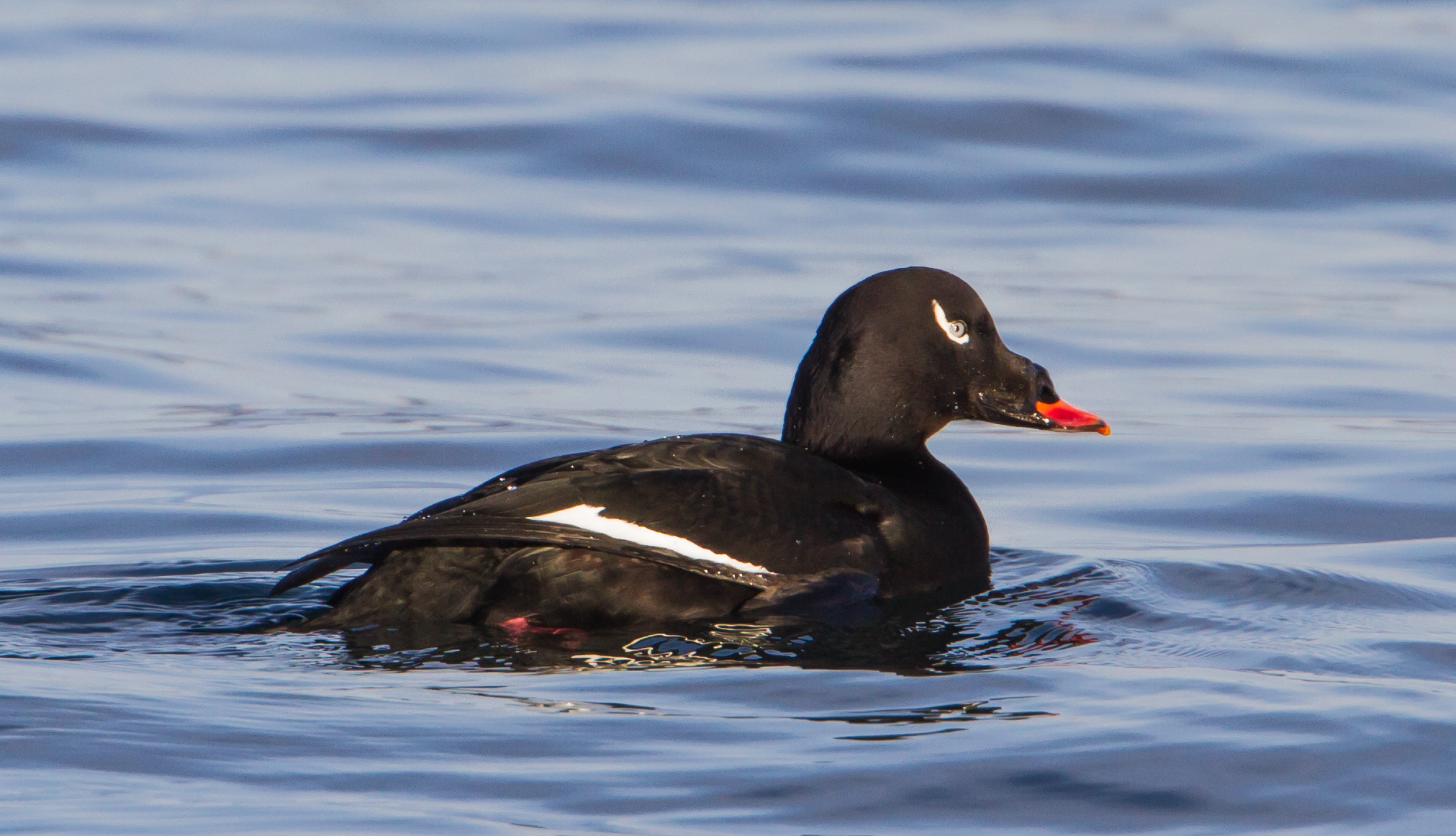 A White-winged Scoter swimming in Iceland.